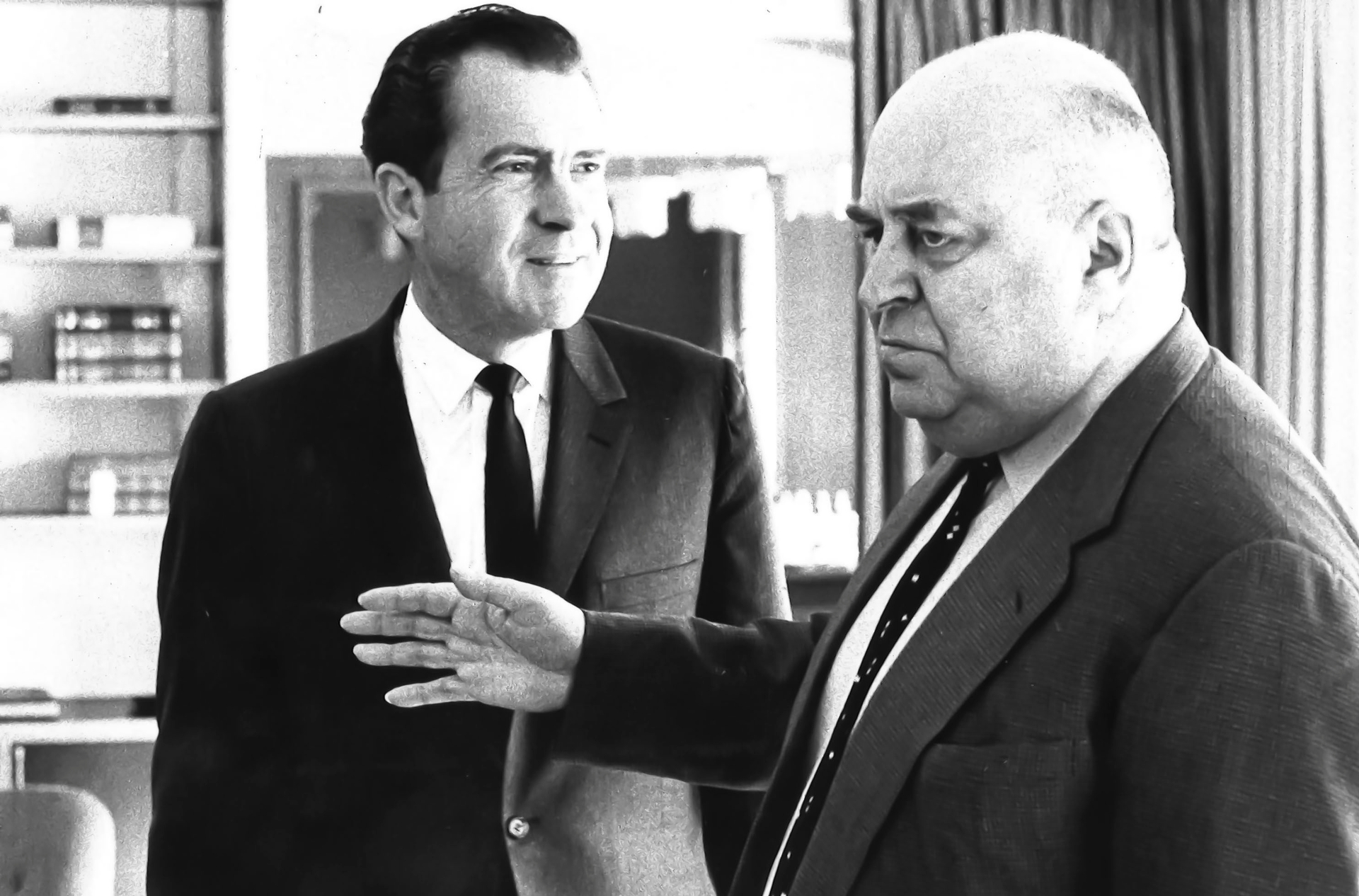 Photograph of Richard Nixon with the Finnish businessman Juuso Walden (1907–1972) in Finland.